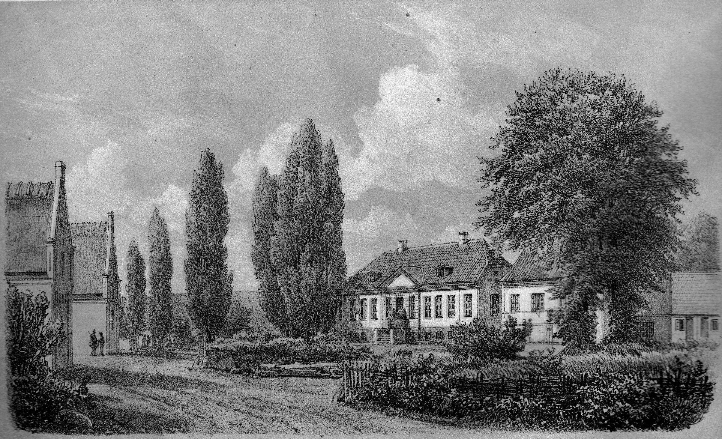 Scanned by myself from a copy of the old book in 2007. The book was graciously lent to me by Det Kongelige Garnisonsbibliotek.